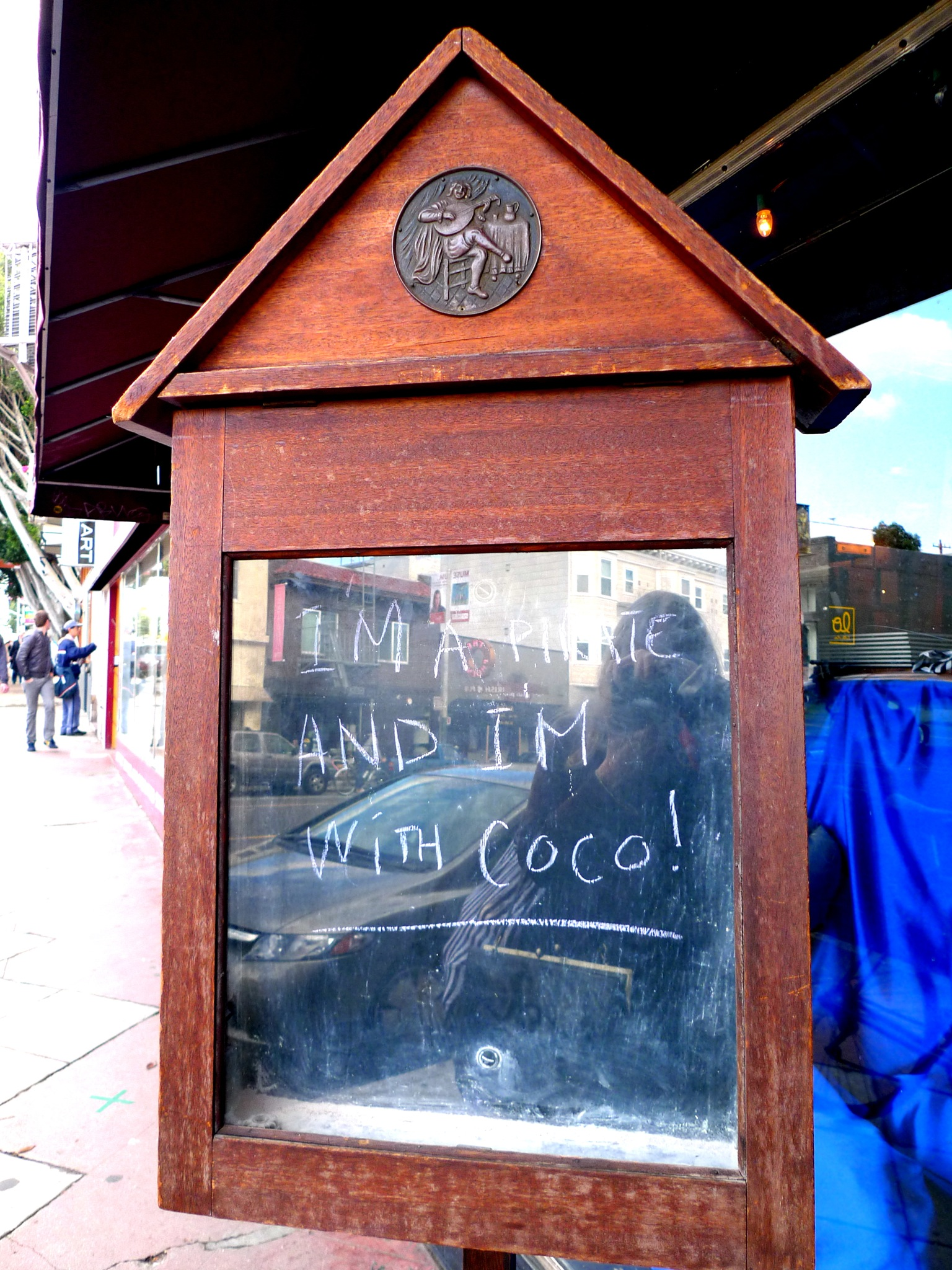 more support for Conan O'Brien at 850 Valencia's Pirate Store